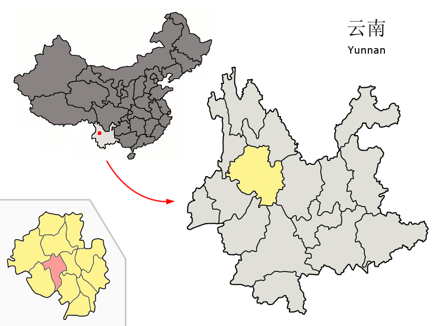 Location of Yangbi County (pink) and Dali Prefecture (yellow) within Yunnan province of China Map drawn in september 2007 using various sources, mainly : Yunnan province administrative regions GIS data: 1:1M, County level, 1990 Yunnan Counties map from